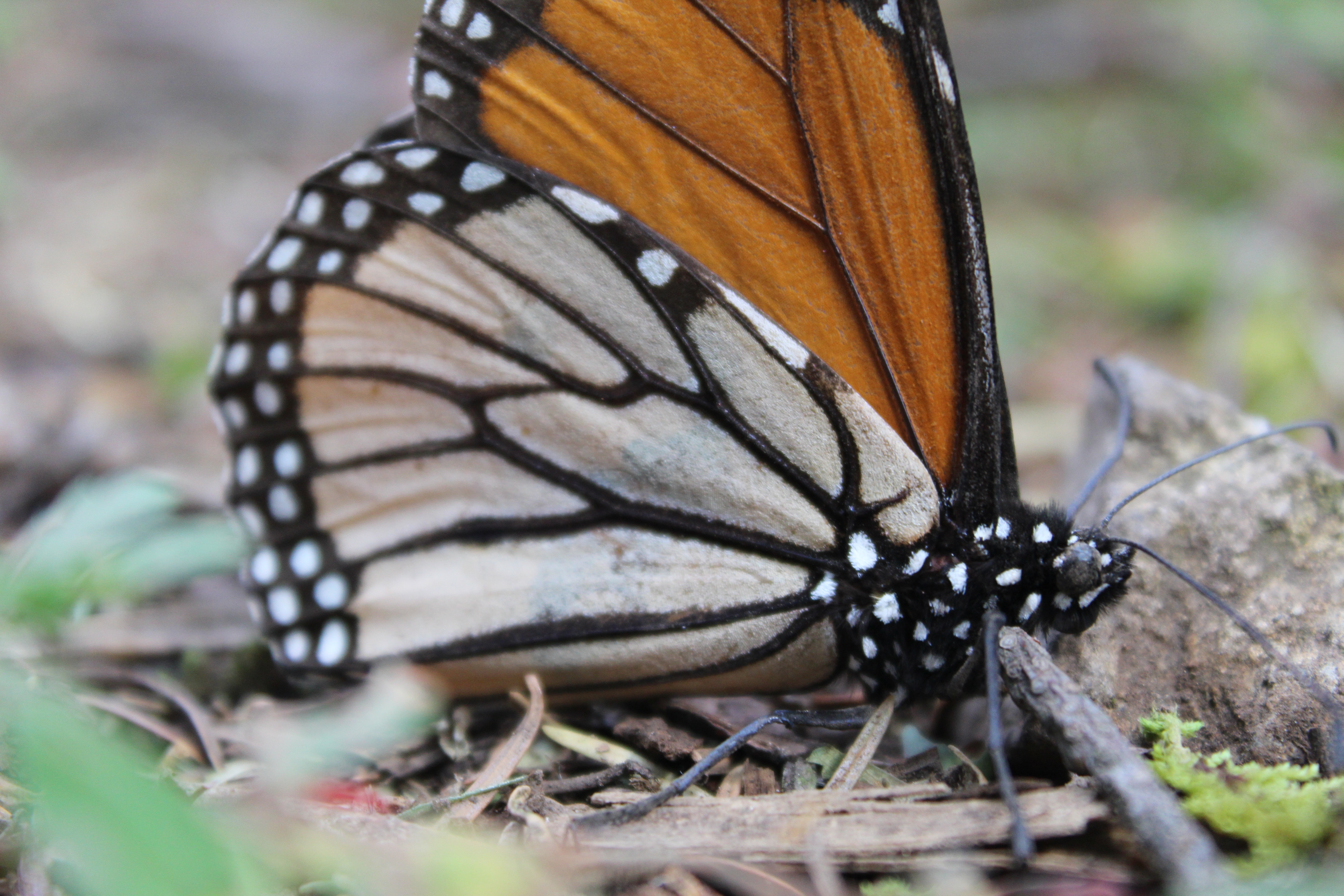 Esta especie de mariposa hace un viaje desde Canadá hasta México. Existen varios santuarios de protección en el país.